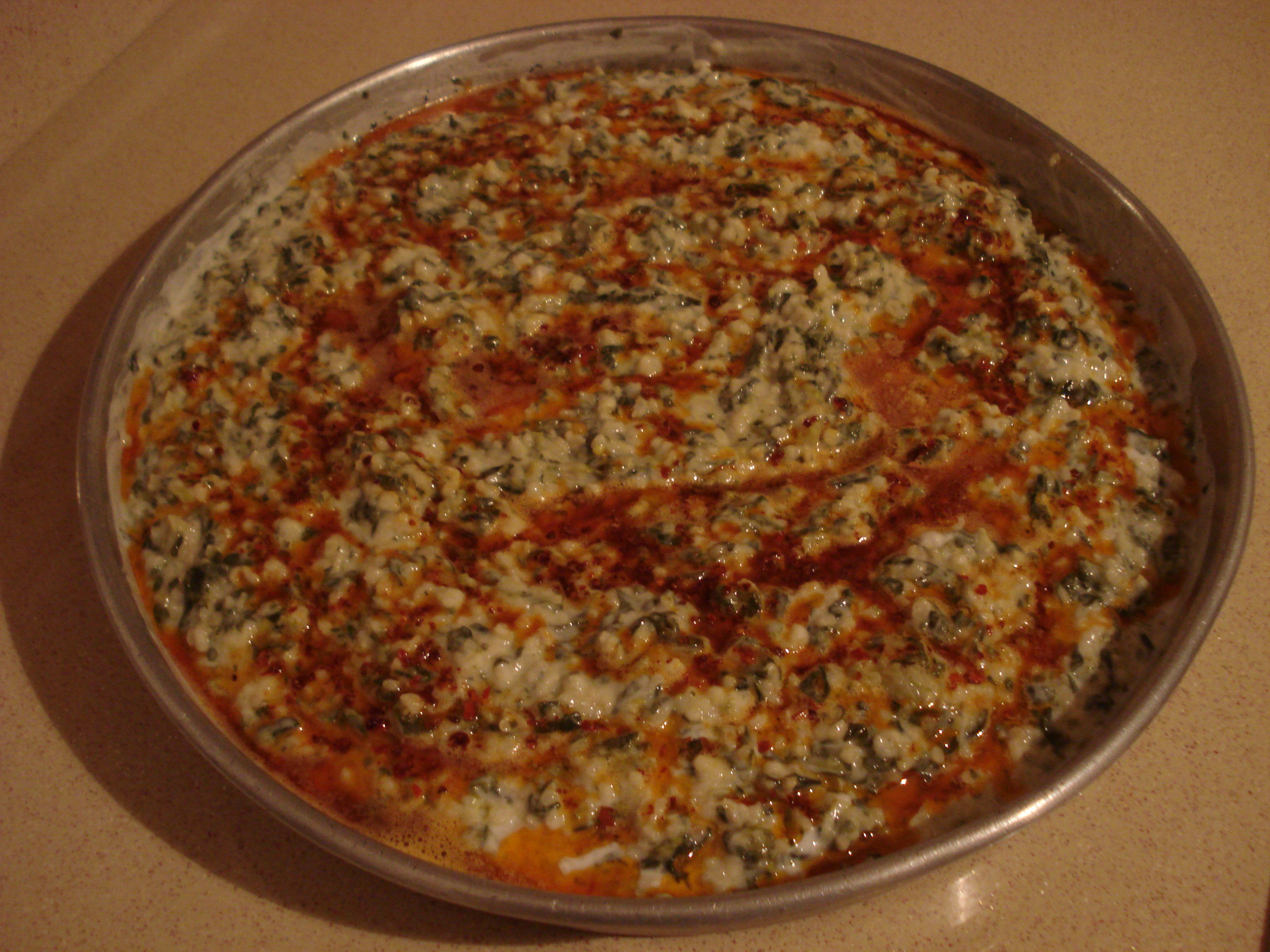 Boranı a kind of Turkish meal with spinach